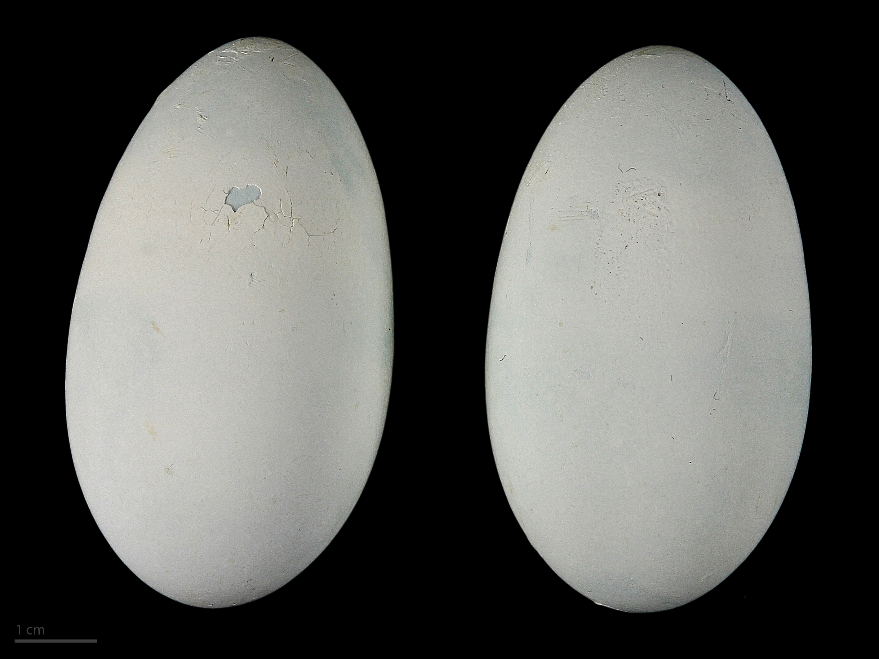 Eggs of European shag Two specimens of the same spawn ; collection of Jacques Perrin de Brichambaut.